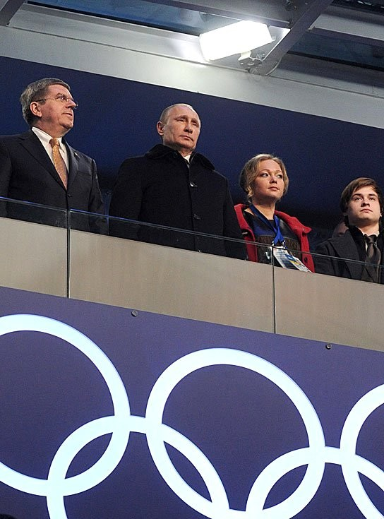 2014 Winter Olympics opening ceremony (2014-02-07) with Thomas Bach, W. Putin, Irina Skvortsova and ?